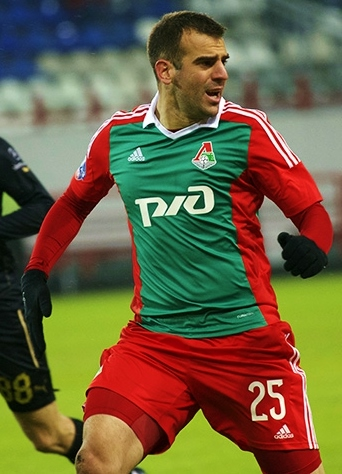 Petar Škuletic